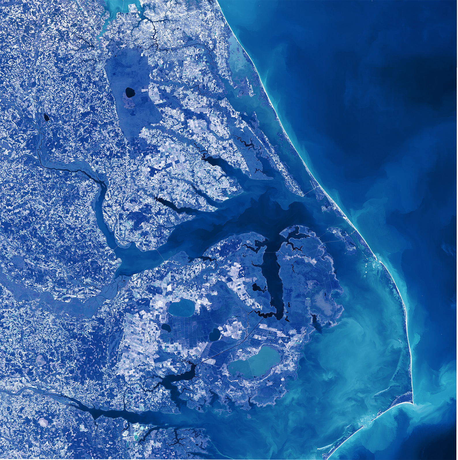 Satellite image of Albemarle Sound, derived from Landsat 8 data.